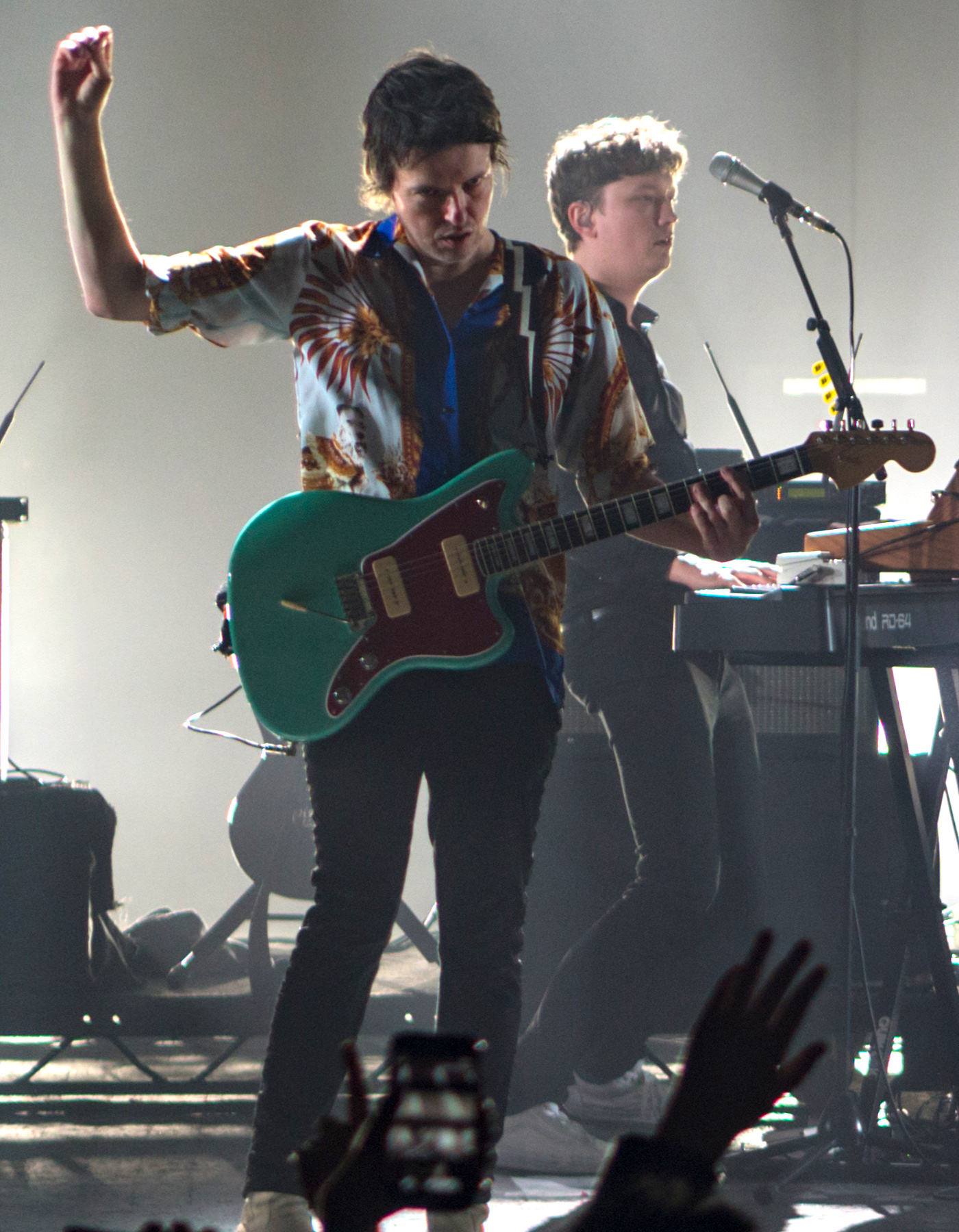 Dino Bardot playing with Franz Ferdinand in Brixton, England in 2018.